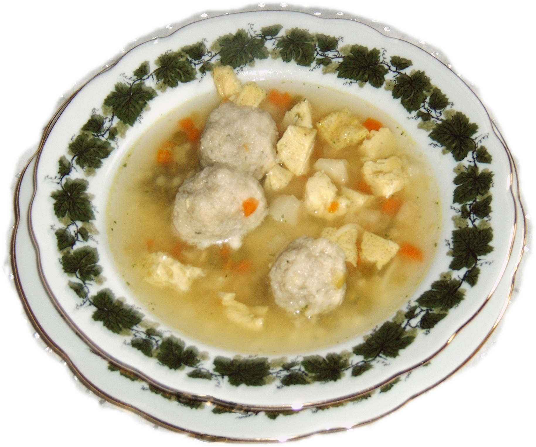 Marrow balla made by myself, soup mafbe by my mother-in-law, photographed by myself.